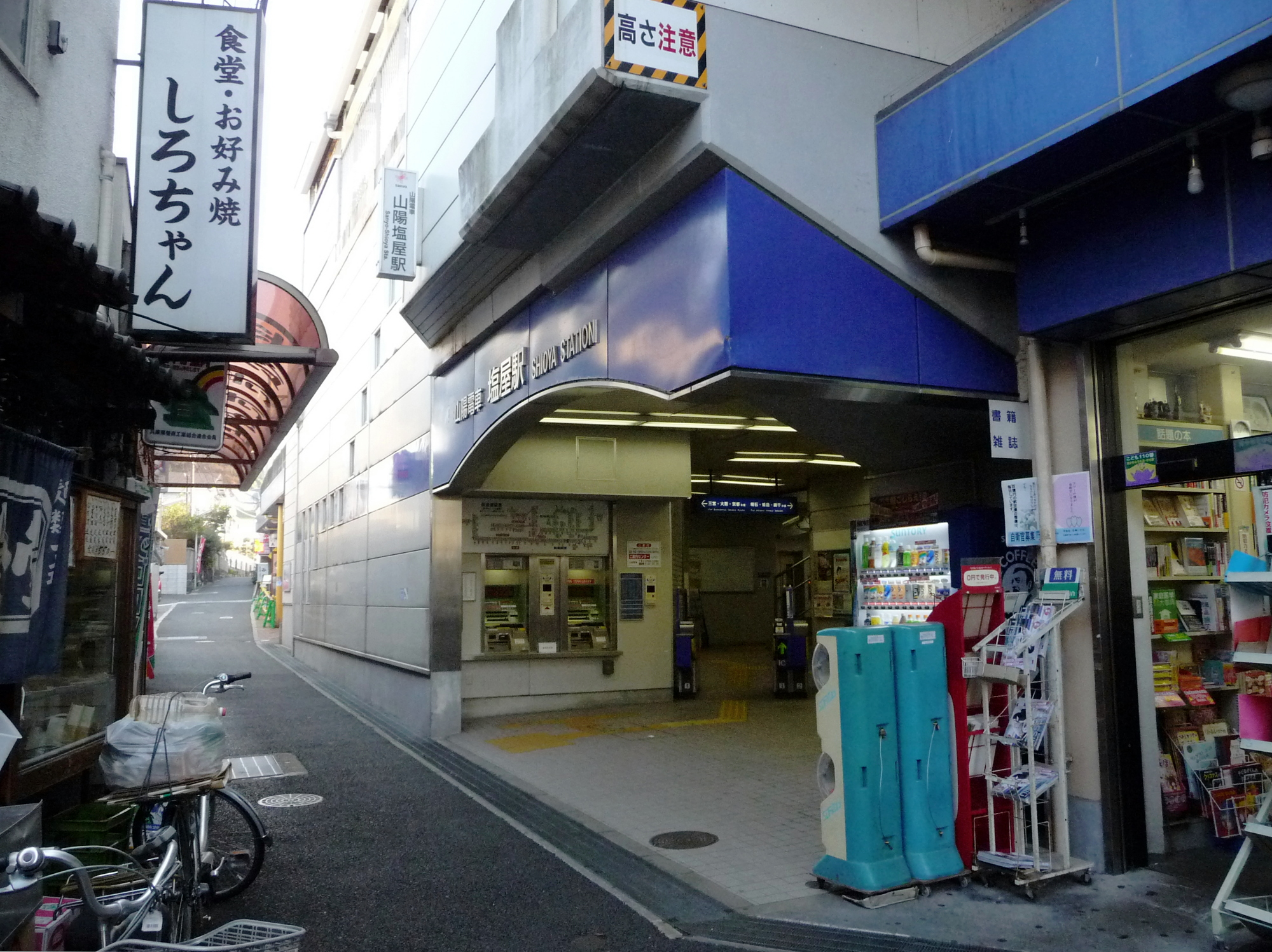 Sanyo-Shioya Station, Sanyo Electric Railway.